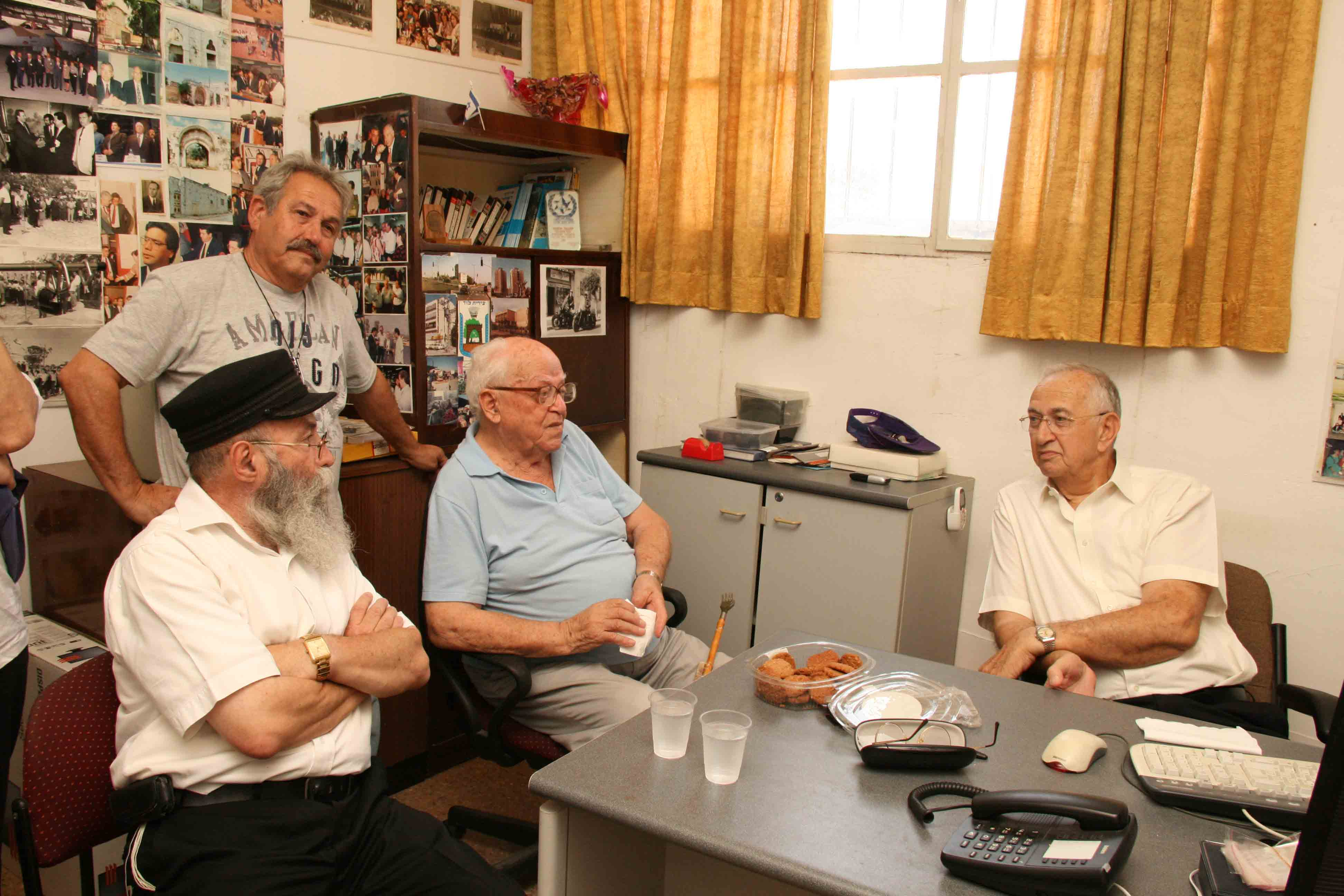 People of Israel